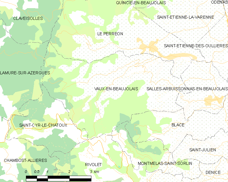 Map of French municipality